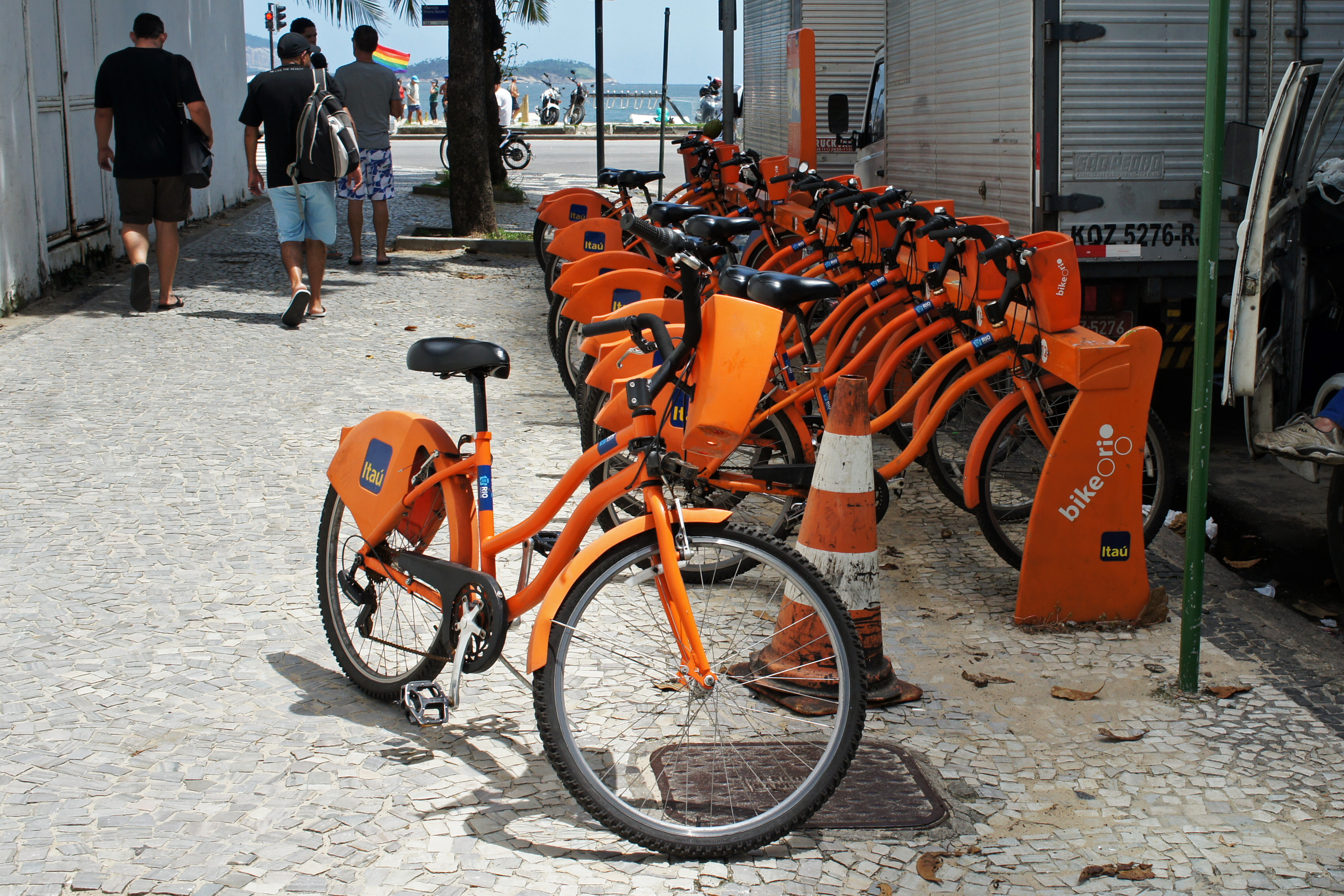 Bike Rio docking station "Posto 9", Rua Farme de Amoedo, Ipanema, Rio de Janeiro.